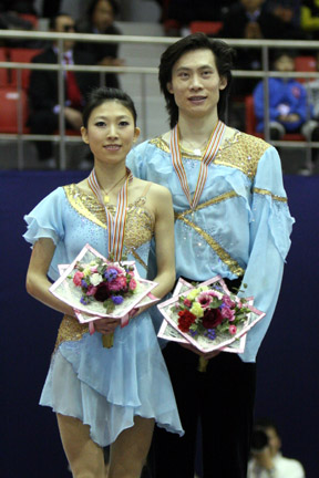 Pang & Tong at the 2008 Four Continents Championhips.